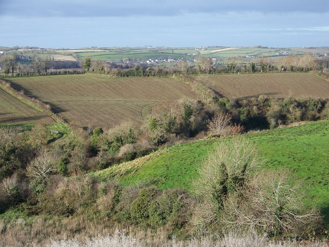 The Fourtowns School Road Townland of Drumsallagh near to Loughbrickland